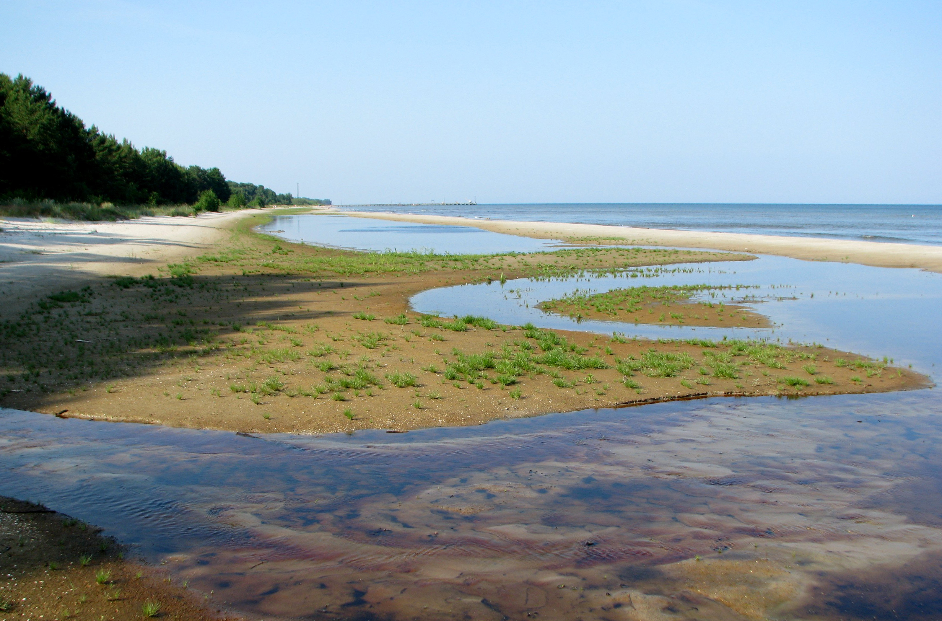 Baltic sea Riga gulf western coast near Kolka